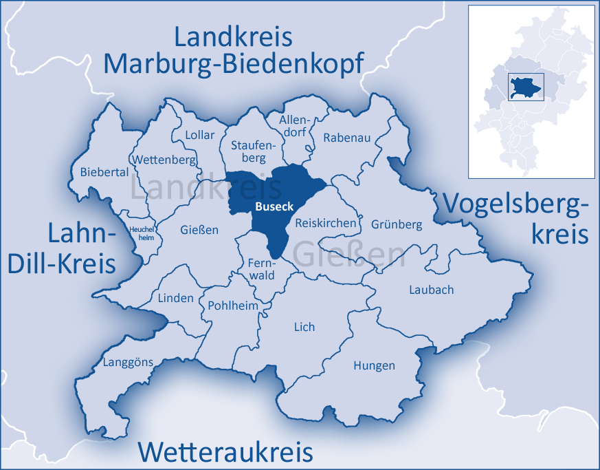 The map shows a district in the area of Gießen (district)